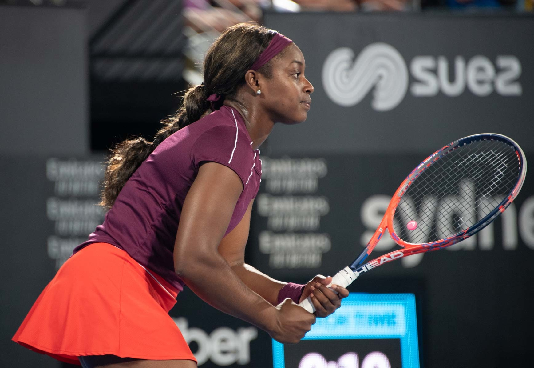 Sydney, Australia - 9 January 2019: Sloane Stephens in the second round at the Sydney International tennis against qualifier Yulia Putintseva on Ken Rosewall Arena, Sydney Olympic Park. (Photo by Rob Keating/robiciatennis.com)